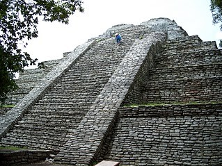 Acropolis Tenam Puente